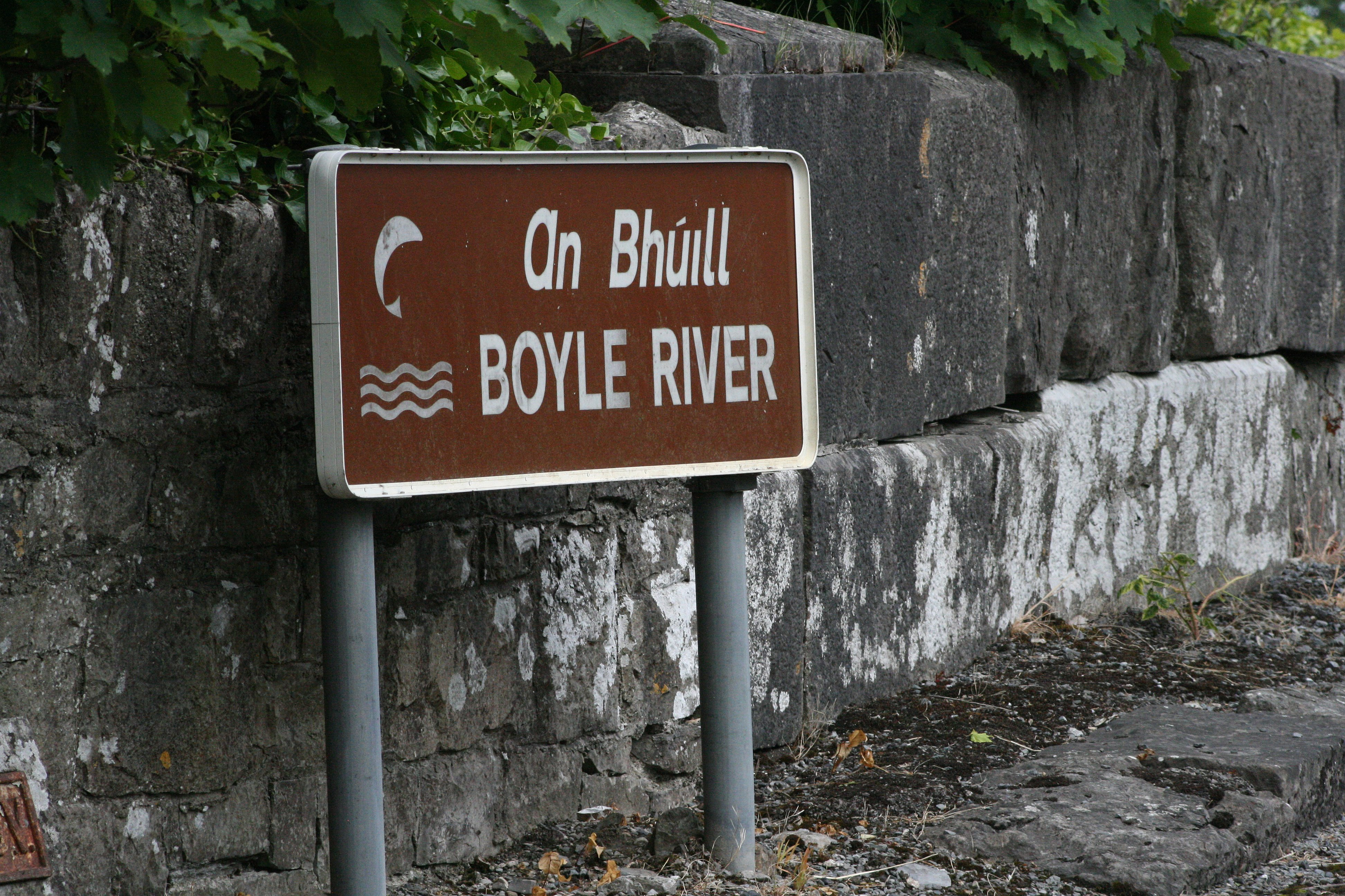 Bridge over the Boyle River at Knockvicar, County Roscommon, Ireland